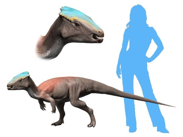 Life reconstruction of Homalocephale calathocercos